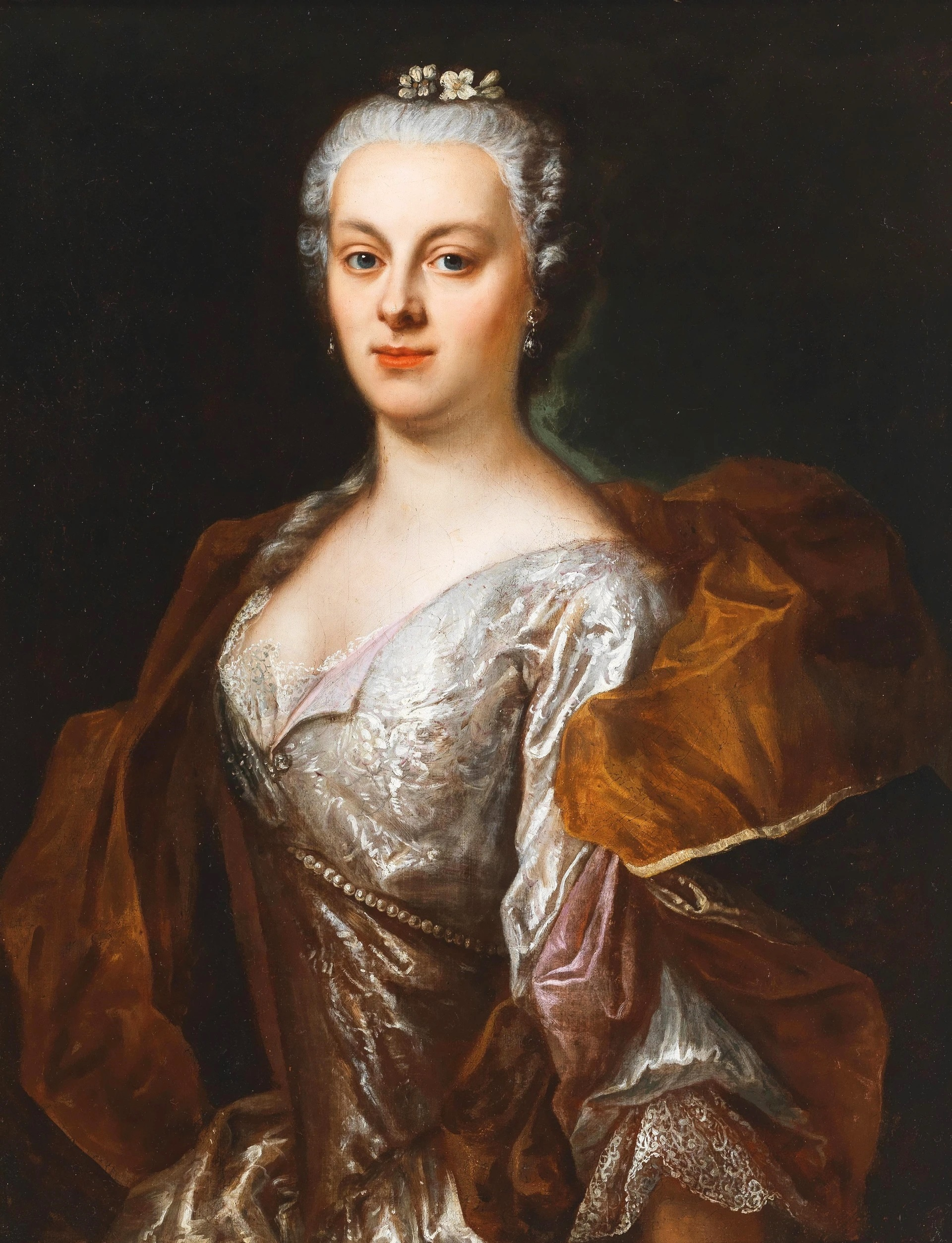 Portrait of Therese Emmanuela of Bavaria (1723–1743), daughter of Ferdinand Maria Innocenz of Bavaria